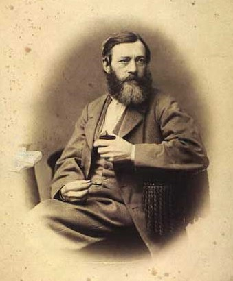 Andreas Christian Ferdinand Flinch (1813-1872), Danish xylographer